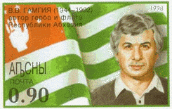 Valery Gamgia at stamp of Republic of Abkhazia